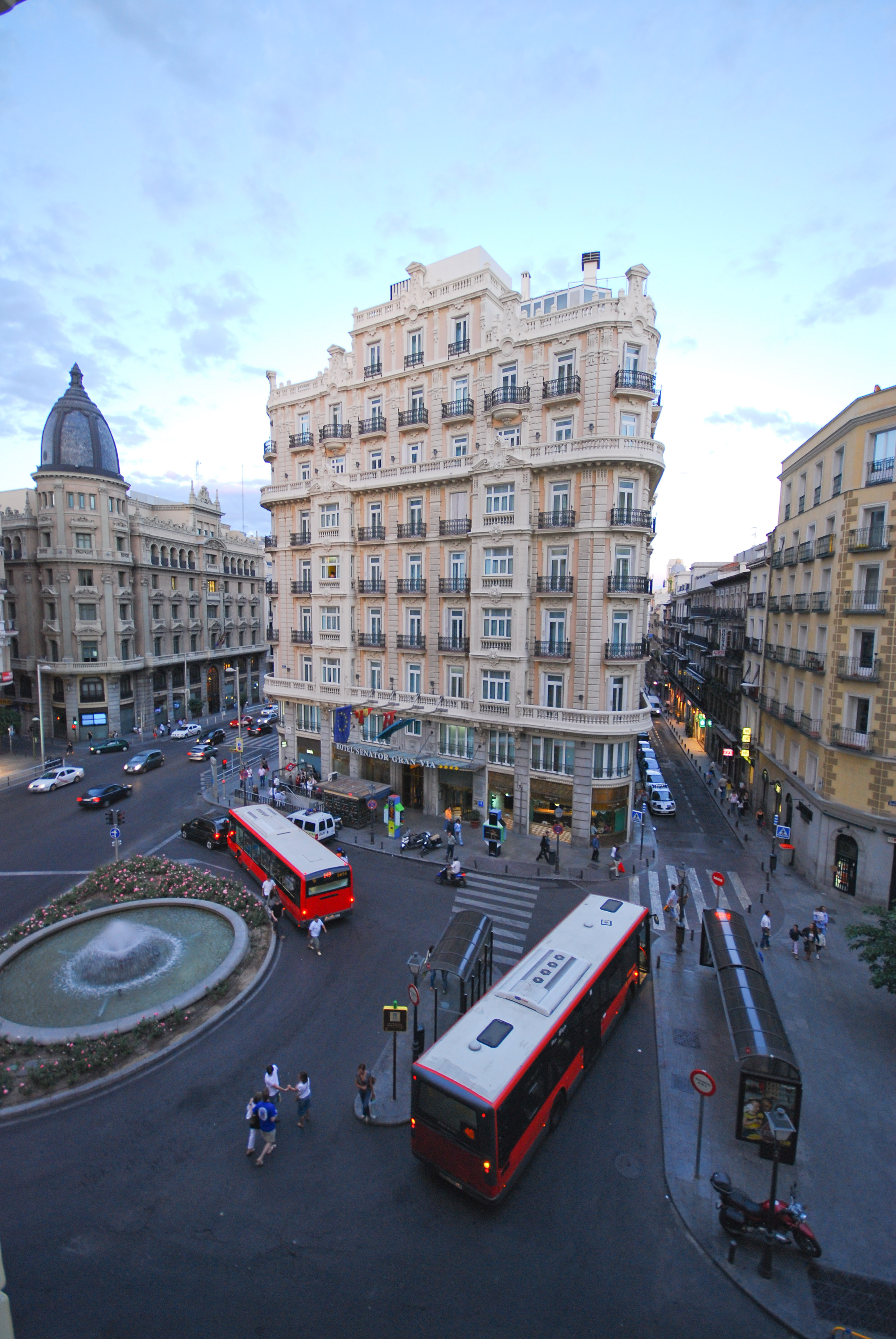 Partial view of the Red de San Luis, a downtown square in Madrid (Spain). At the left, the Gran Vía (street). At the centre, the Senator Gran Vía hotel.